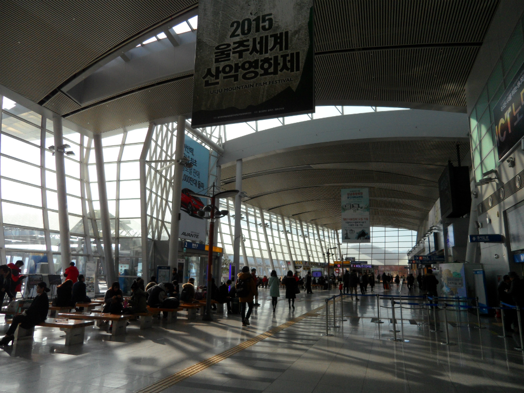 Waiting room of Ulsan Station